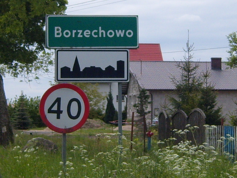 Villagesign of Borzechowo.